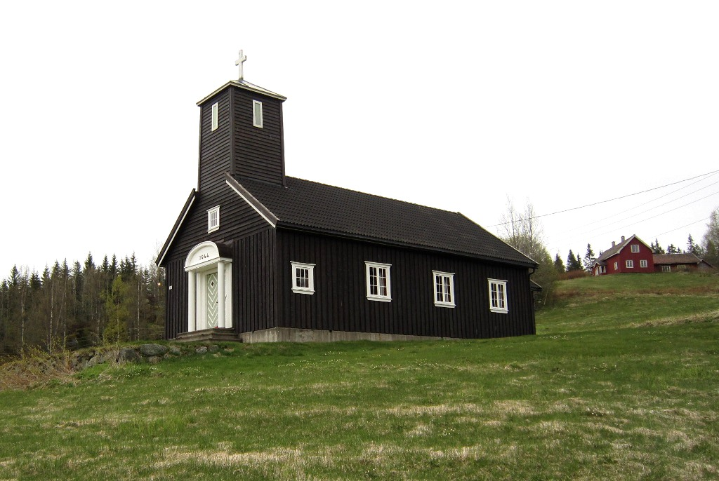 Grorud chapel (church), Siljan municipality, Norway